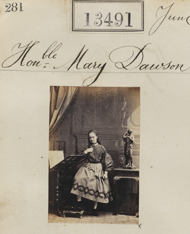 Mary Eleanor Anne (née Dawson), Countess of Ilchester by Camille Silvy albumen print, 11 June 1863 3 1/4 in. x 2 1/8 in. (84 mm x 55 mm) image size Purchased, 1904 Photographs Collection of the National Portrait Gallery NPG Ax63124